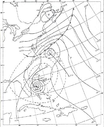 Sea Level Weather Chart of Hurricane Able in 1951